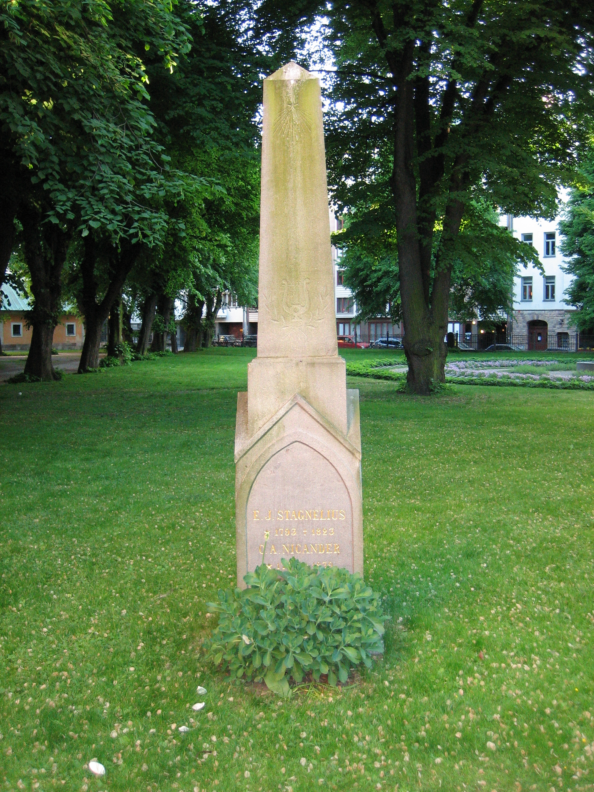 The gravestone of Erik Johan Stagnelius (1793-1823), swedish poet. Maria Magdalena graveyard in Stockholm, Sweden.